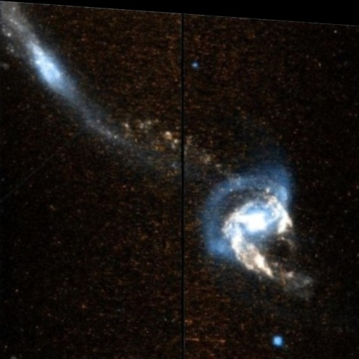 Arp 284 (NGC 7714 & NGC 7715) - Hubble Space Telescope - Hubble Legacy Archive